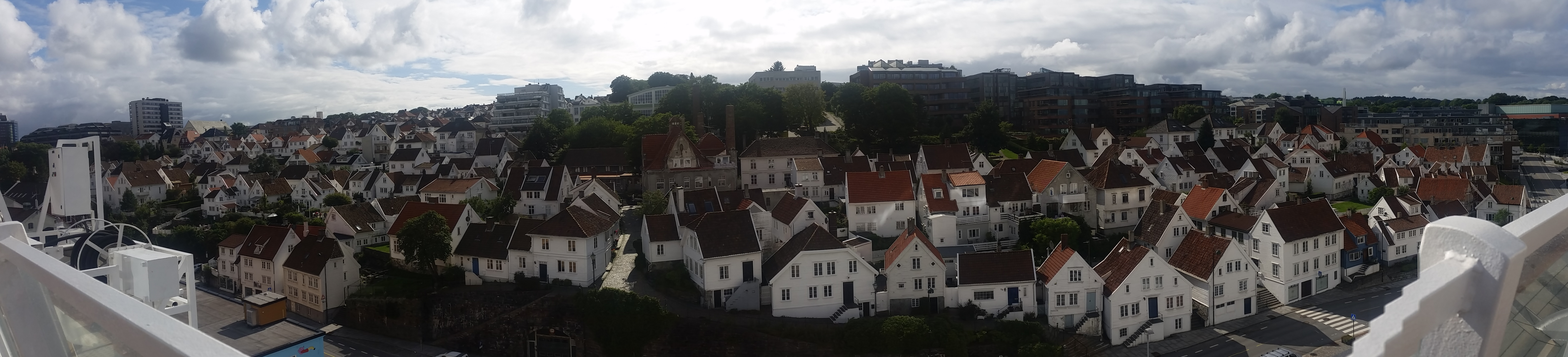 Panorama of Stavangers old town Gamle Stavanger seen from the AIDAaura.